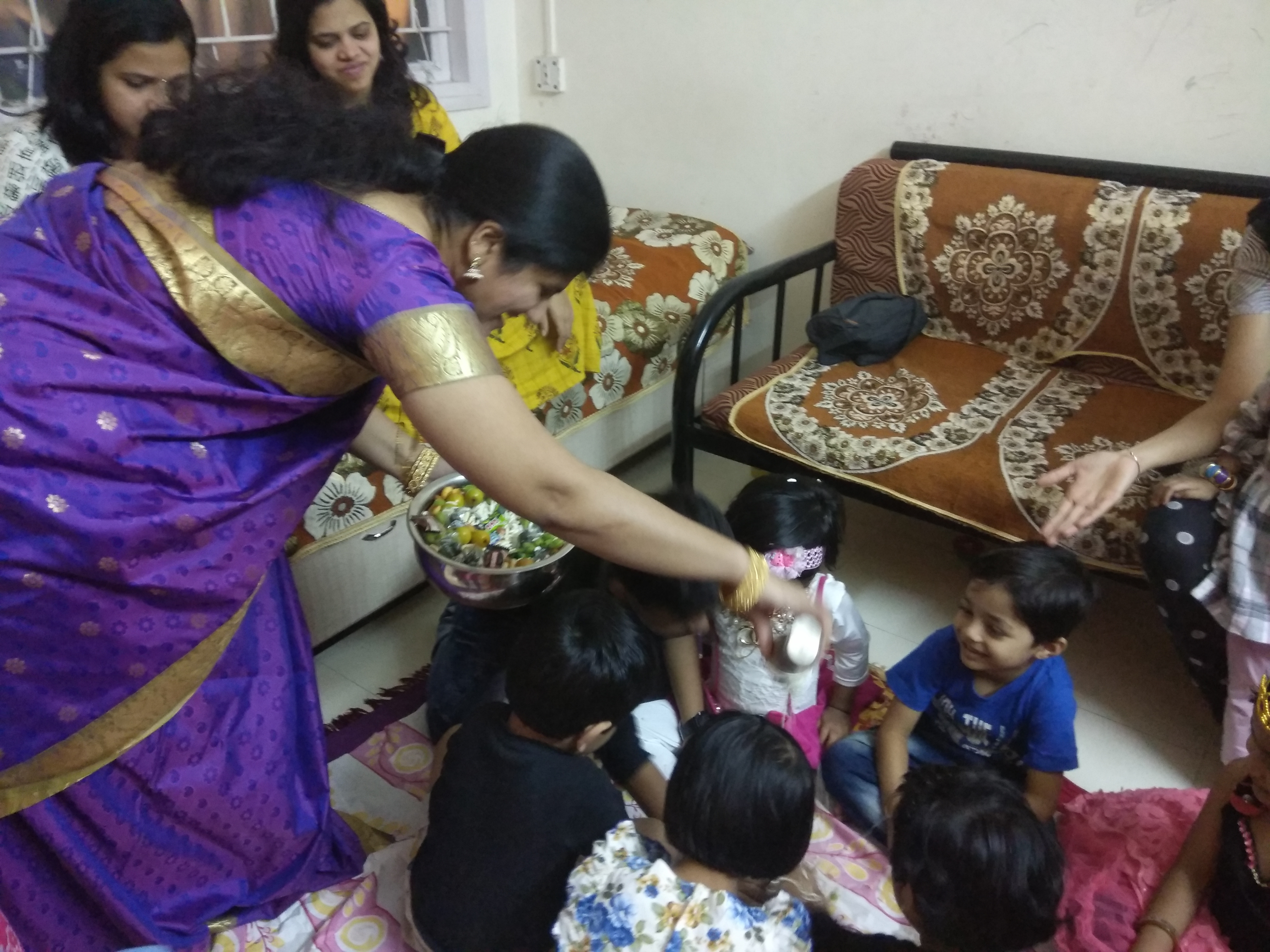 makarsankranti celebration for kuds called bornahan in maharashtra.